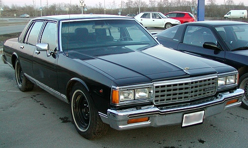 1981-1985 Chevrolet Caprice Classic